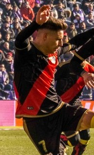 Real Valladolid - Rayo Vallecano, 18th fixture of the 2018-19 La Liga, January 5, 2019.